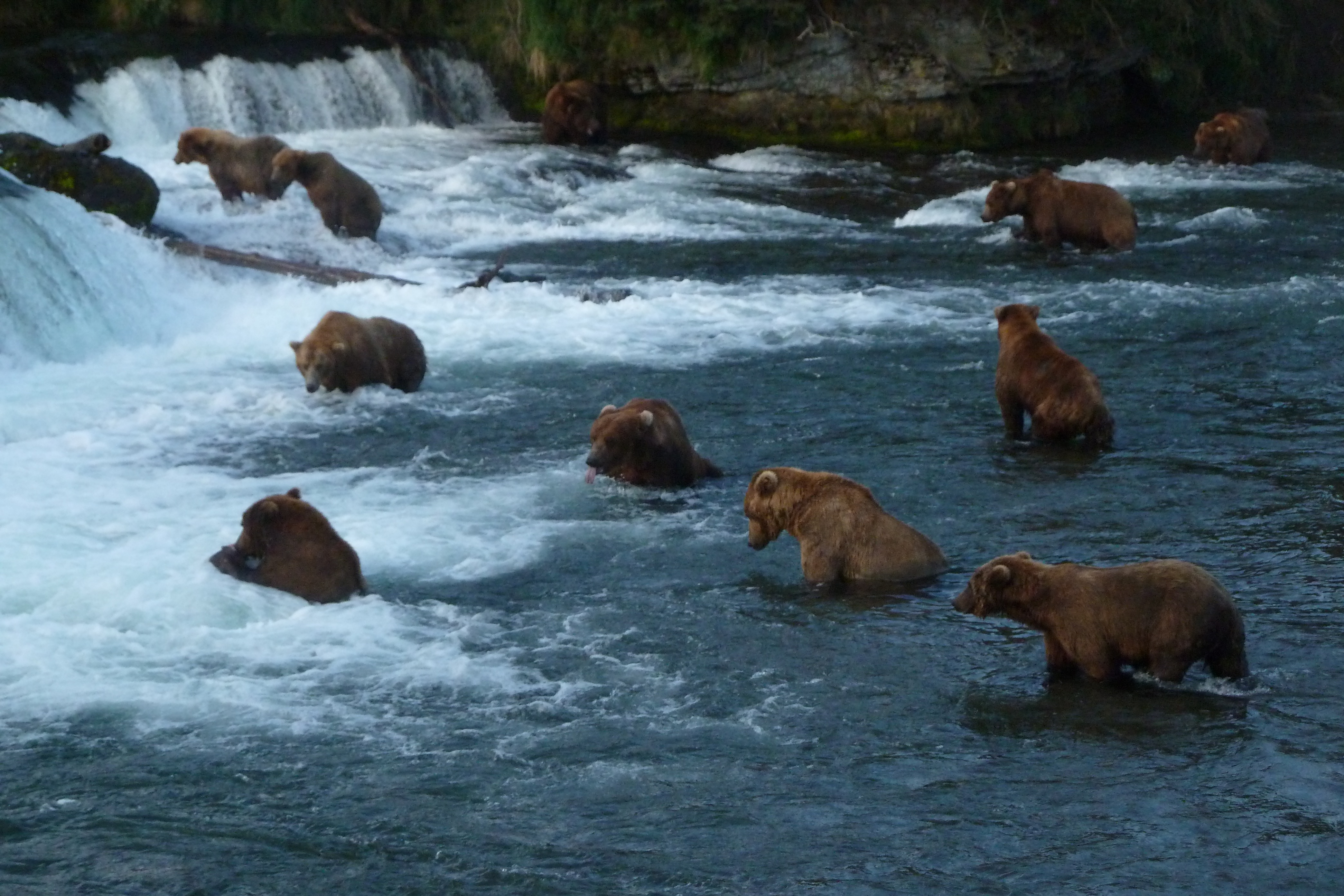 bears at falls in july